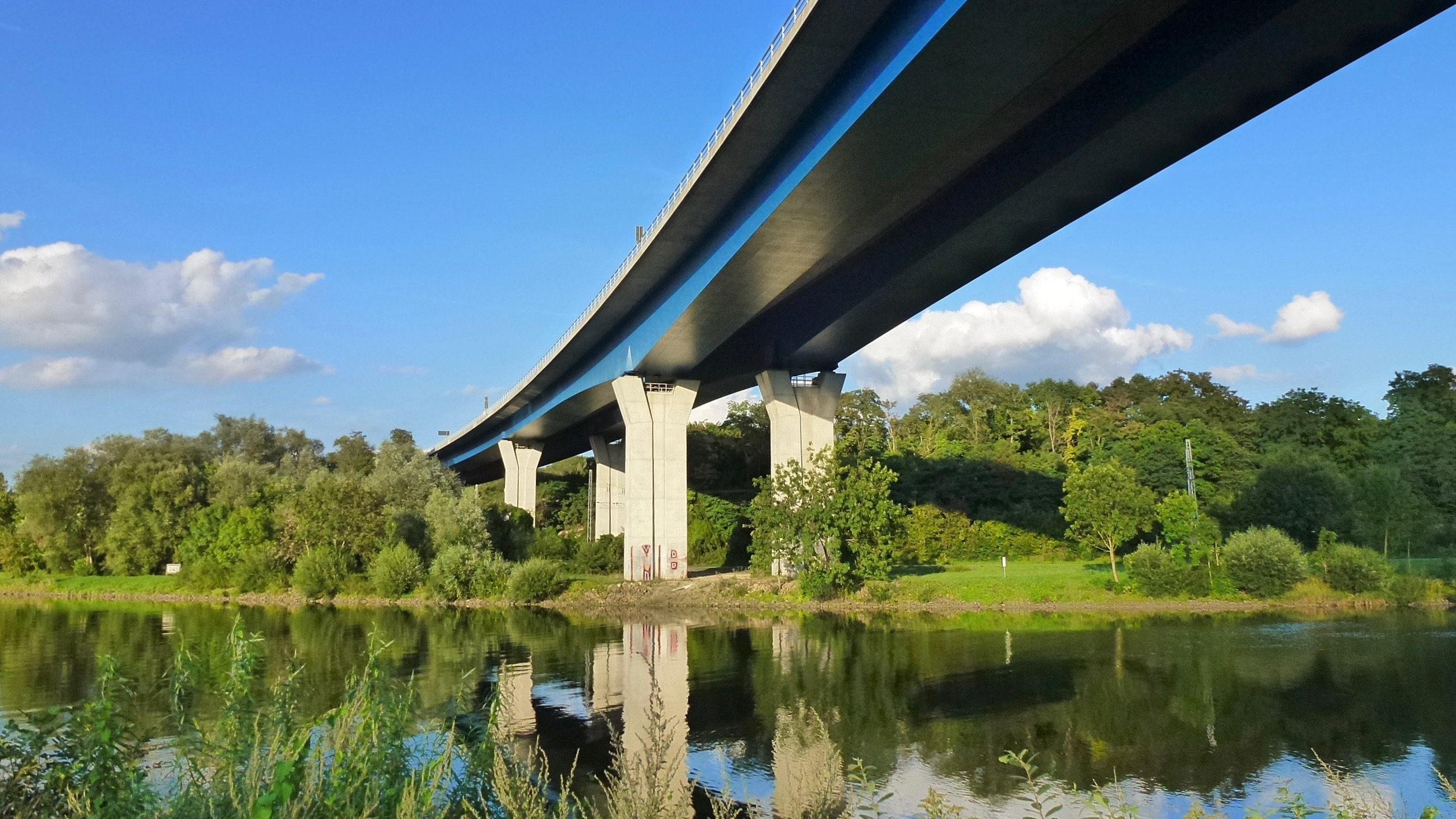 MOTORWAY BRIDGE in SCHENGEN, connecting Luxembourg to Germany